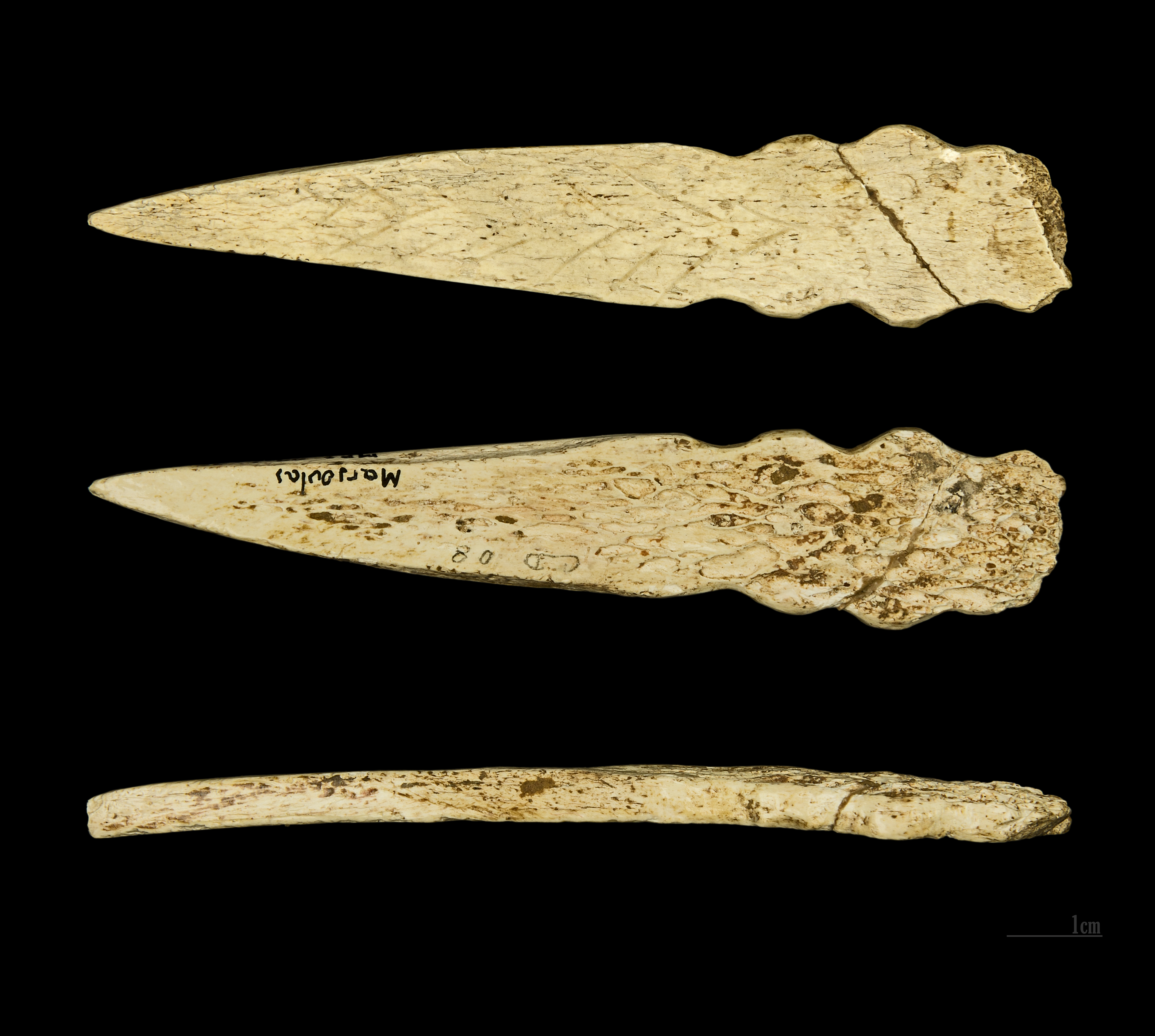 Appointed and decorated piece of reindeer bone. Initial excavations Cau-Durban in 1883. Stage : Magdalenian (to 17 000 from 10 000 Before the Current Era) Locality : Marsoulas cave, Marsoulas, Haute-Garonne France. Muséum of Toulouse MHNT.PRE.2009.0.249.1